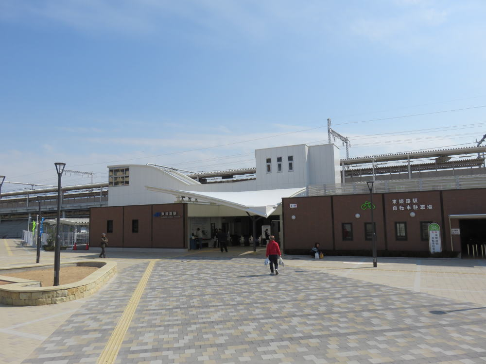 The entrance to Higashi-Himeji Station in Hyogo Prefecture, Japan